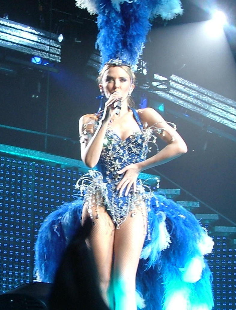 Kylie Minogue live in Paris - The Beginning - April 20th 2005